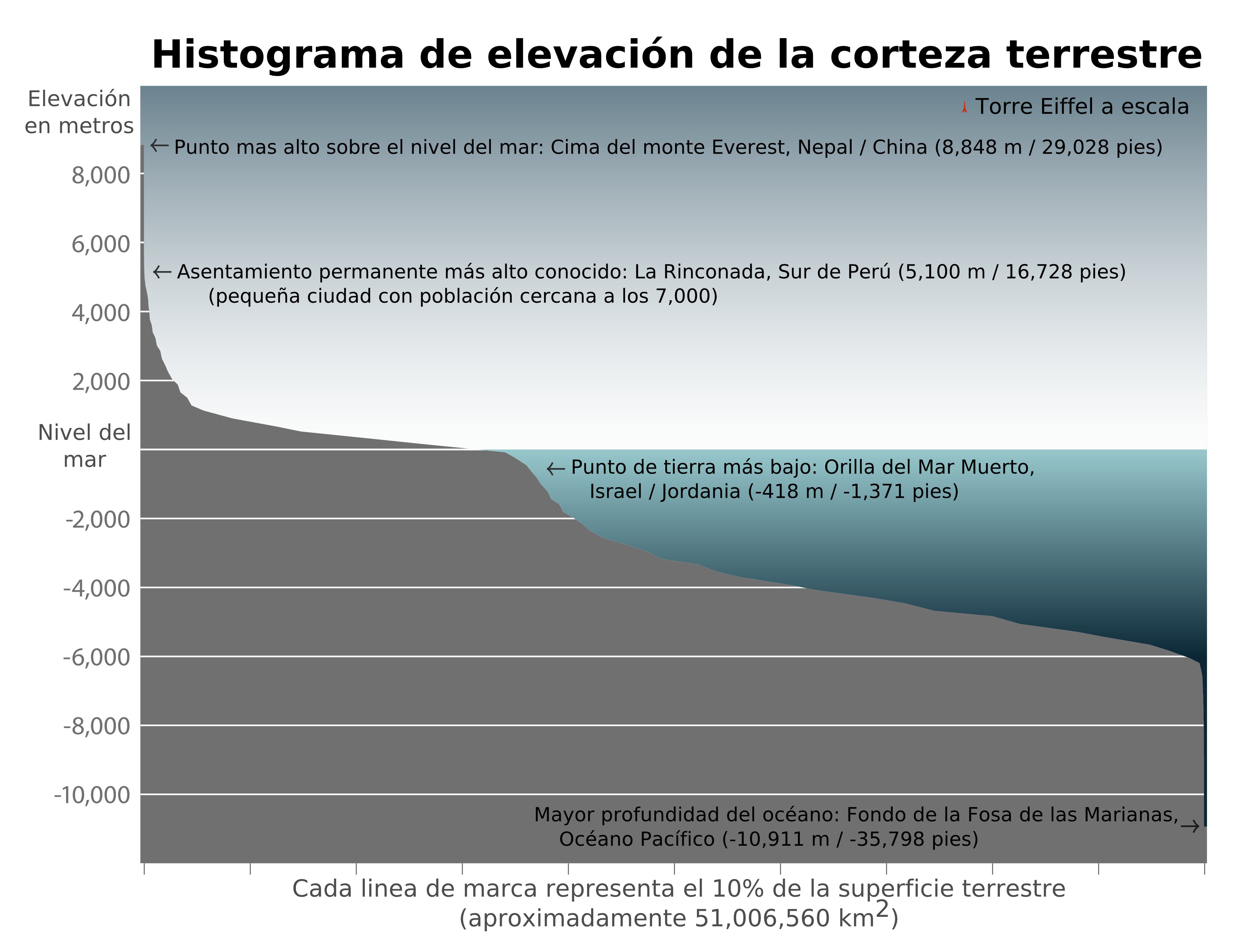 I made this, and release it into the public domain. It is an update of a graphic I did earlier, fixing some svg errors and adding data missing from the derivative version by MesserWoland.